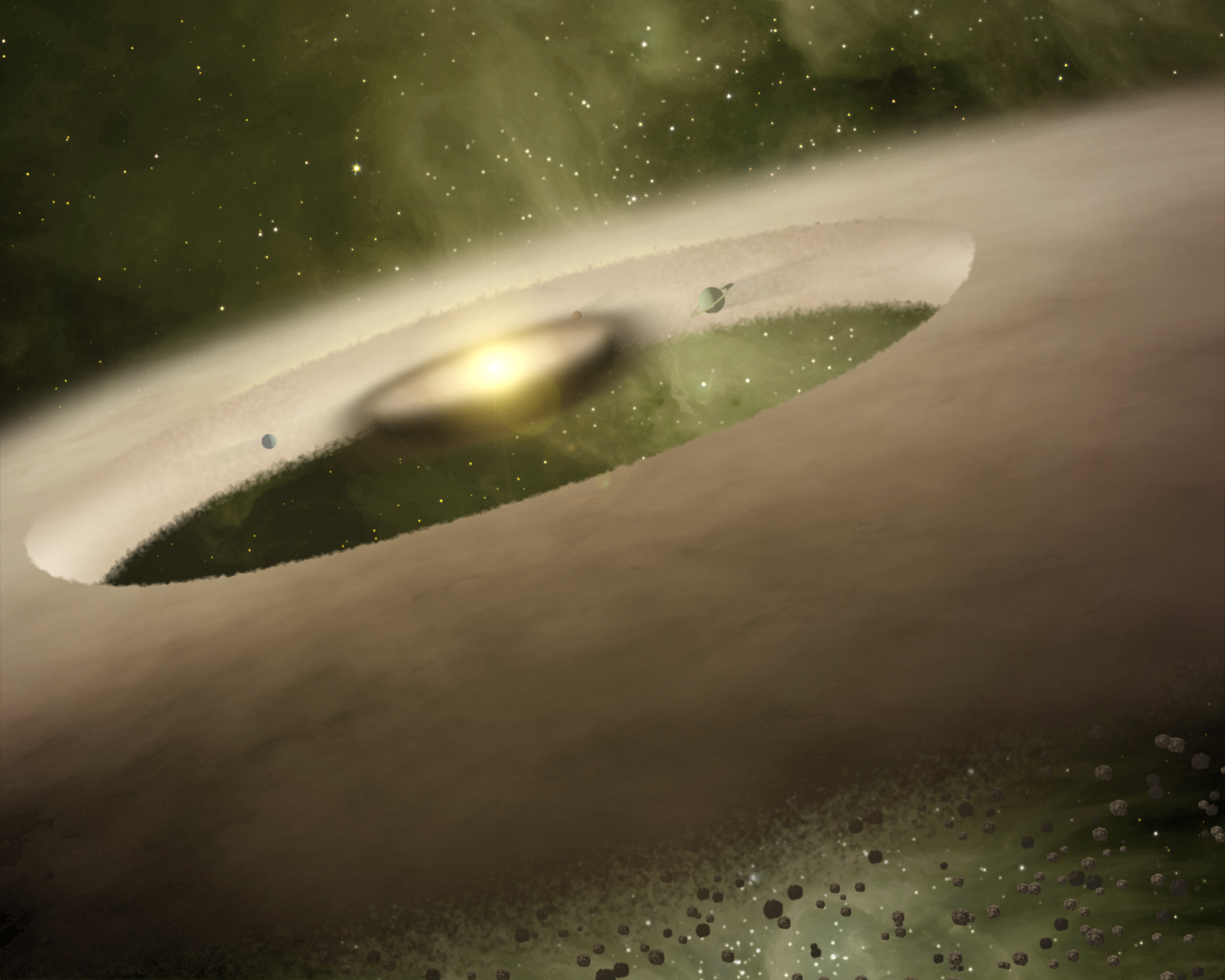 Artist's conception of circumstellar disk around UX Tauri A